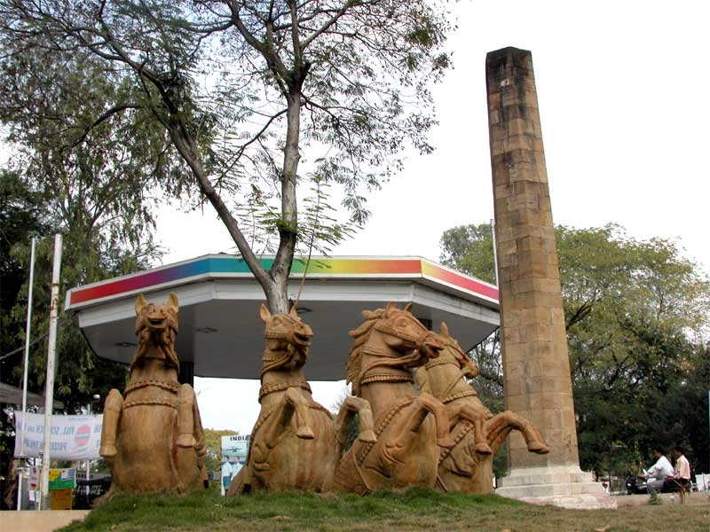 Zero Mile marker of India located in Nagpur.